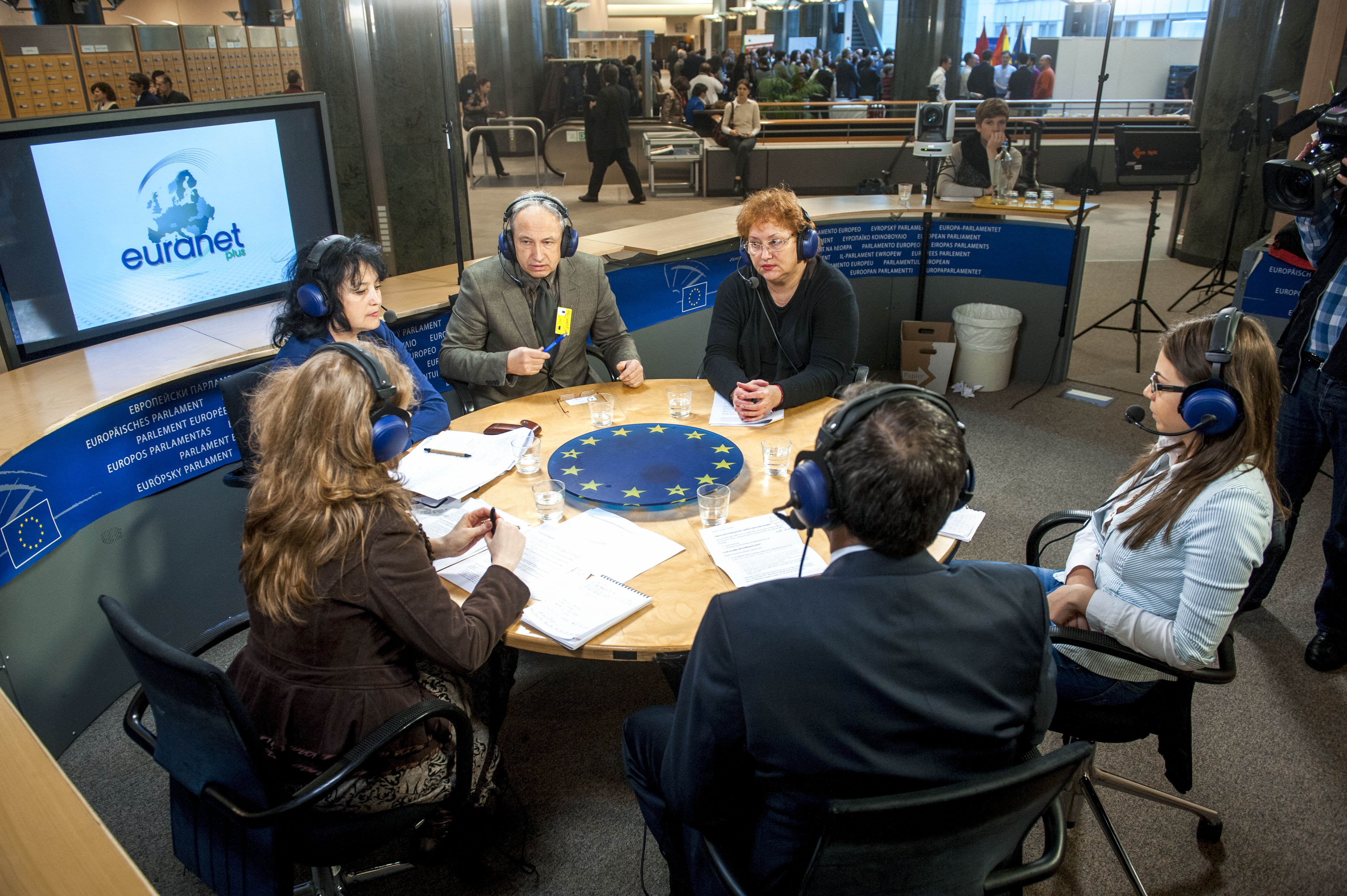 How is one to choose the right university? Should the European university ranking be consulted? Is it better to study in the EU or in the US? Does vocational training provide better chances of getting closer to the real labour market needs? It is these pressing questions of the youth that were answered during the Citizens' Corner debate on studying abroad that was hosted live from the European Parliament in Brussels on December 17, 2013. Get all the details, videos and audios at